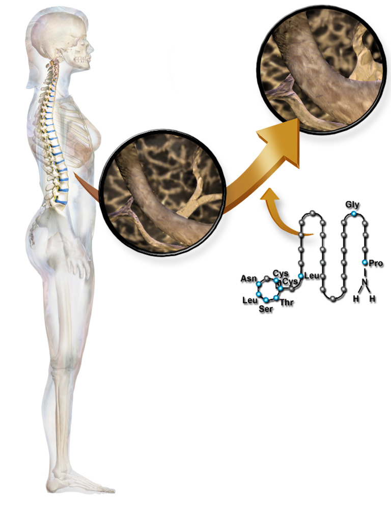 Calcitonin. [1]